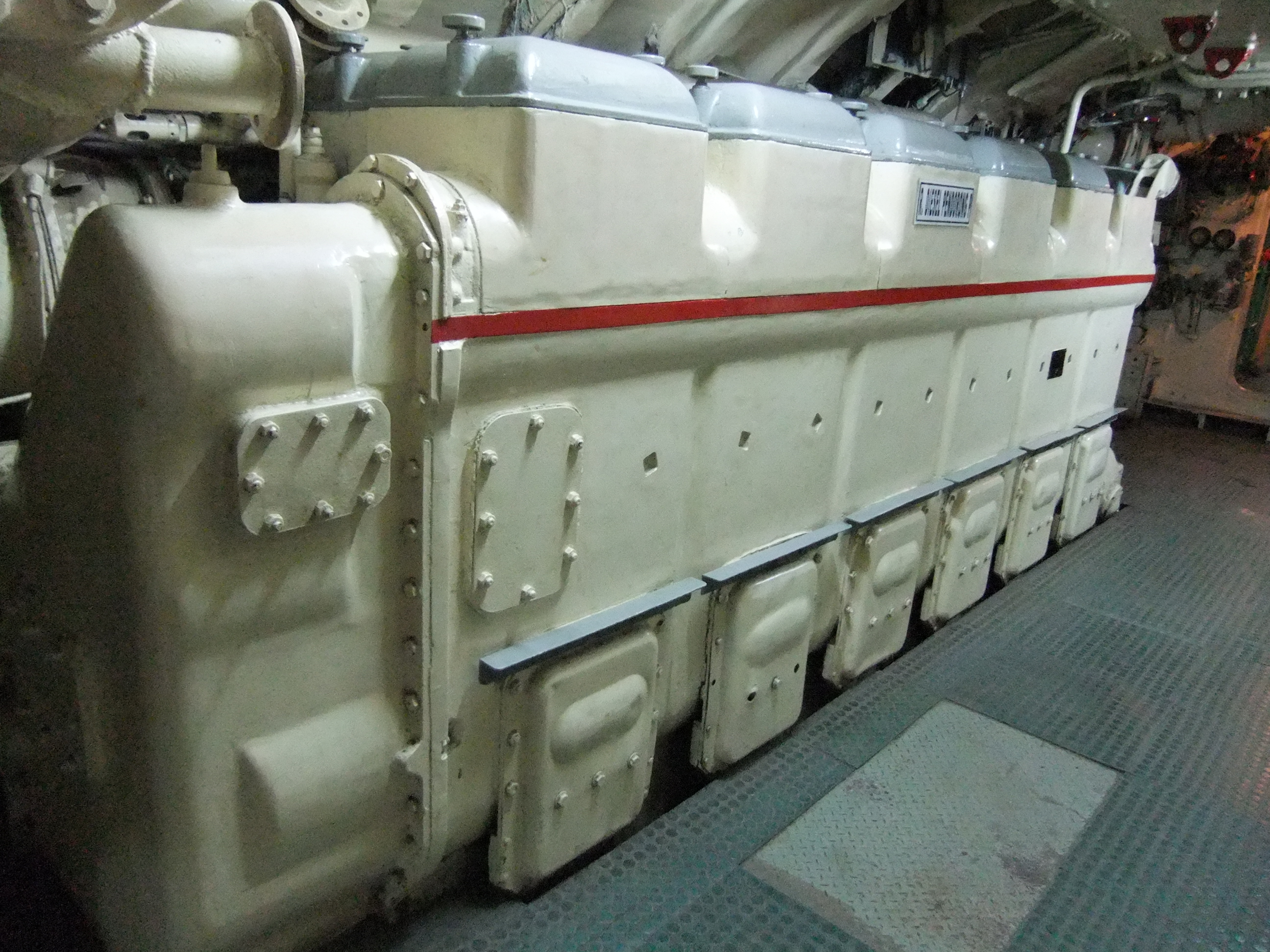 Submarine Monument (KRI Pasopati), Surabaya, Indonesia